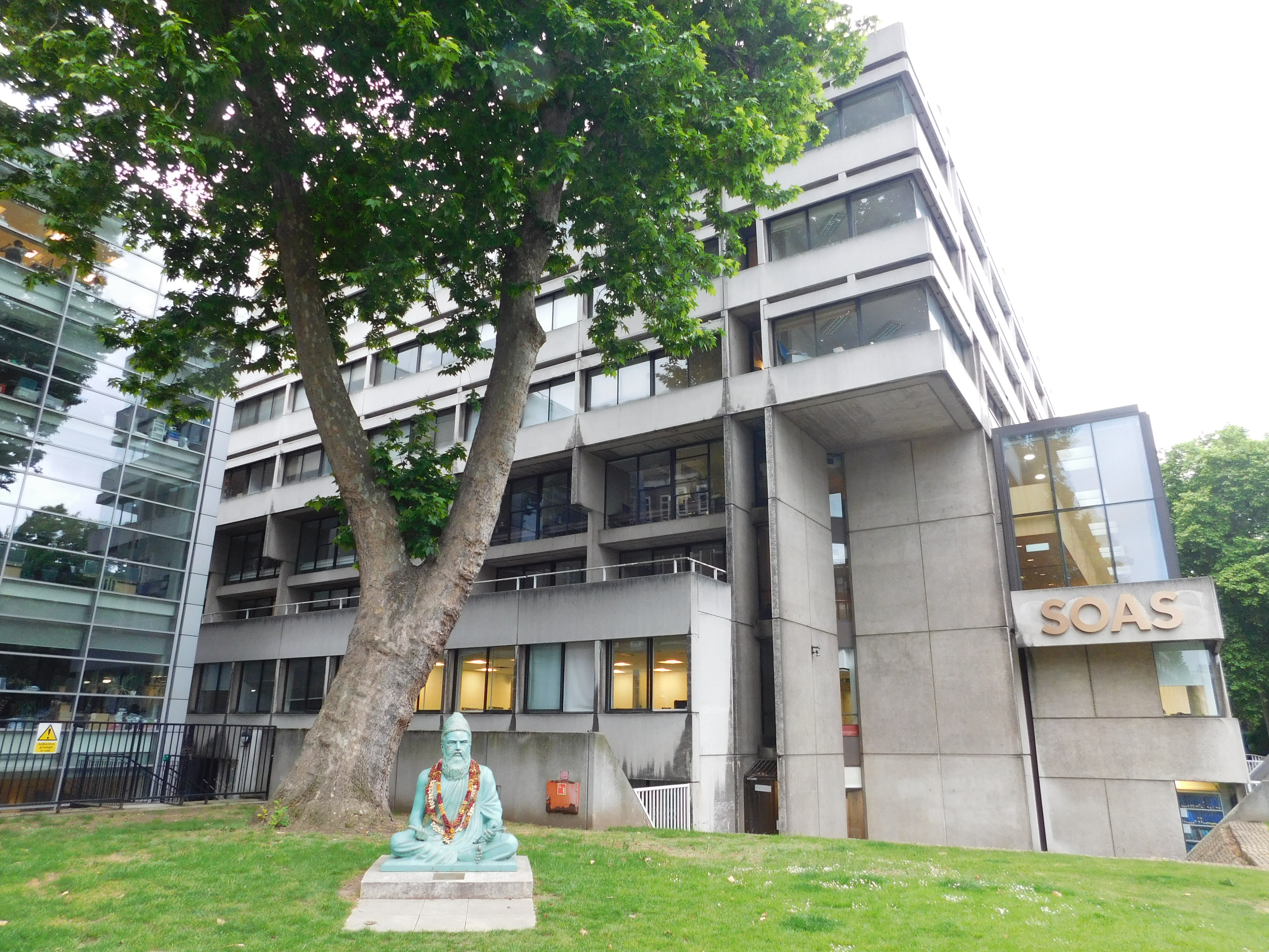 Philips Building, School Of Oriental And African Studies Wikidata has entry Q17548936 with data related to this item.